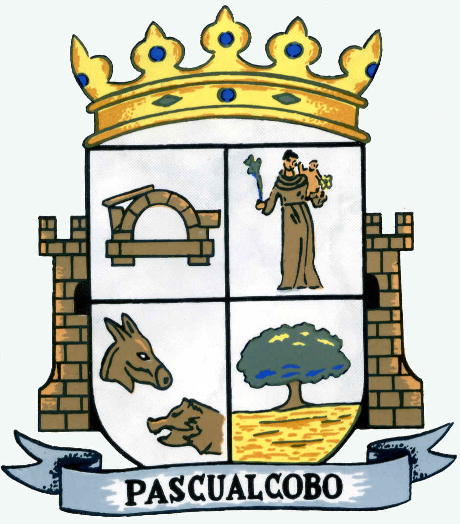 Coat of arms of the village of Pascualcobo (Spain)